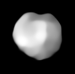 VLT's SPHERE spies rocky worlds From the description at File:Potw1749a.tif: These images were taken by ESO's SPHERE (Spectro-Polarimetric High-Contrast Exoplanet Research) instrument, installed on the Very Large Telescope at the Paranal Observatory, Chile. These strikingly-detailed views reveal four of the millions of rocky bodies in the main asteroid belt, a ring of asteroids between Mars and Jupiter that separates the rocky inner planets of the Solar System from the gaseous and icy outer planets. Clockwise from top left, the asteroids shown here are 29 Amphitrite, 324 Bamberga, 2 Pallas, and 89 Julia. Named after the Greek goddess Pallas Athena, 2 Pallas is about 510 kilometres wide. This makes it the third largest asteroid in the main belt and one of the biggest asteroids in the entire Solar System. It contains about 7% of the mass of the entire asteroid belt — so hefty that it was once classified as a planet. A third of the size of 2 Pallas, 89 Julia is thought to be named after St Julia of Corsica. Its stony composition led to its classification as an S-type asteroid. Another S-type asteroid is 29 Amphitrite, which was only discovered in 1854. 324 Bamberga, one of the largest C-type asteroid in the asteroid belt, was discovered even later: Johann Palisa found it in 1892. Today, it is understood that C-type asteroids may actually be bodies from the outer Solar System following the migration of the giant planets. As such, they may contain ice in their interior. Although the asteroid belt is often portrayed in science fiction as a place of violent collisions, packed full of large rocks too dangerous for even the most skilled of space pilots to navigate, it is actually very sparse. In total, the asteroid belt contains just 4% of the mass of the Moon, with about half of this mass contained in the four largest residents: Ceres, 4 Vesta, 2 Pallas, and 10 Hygiea.